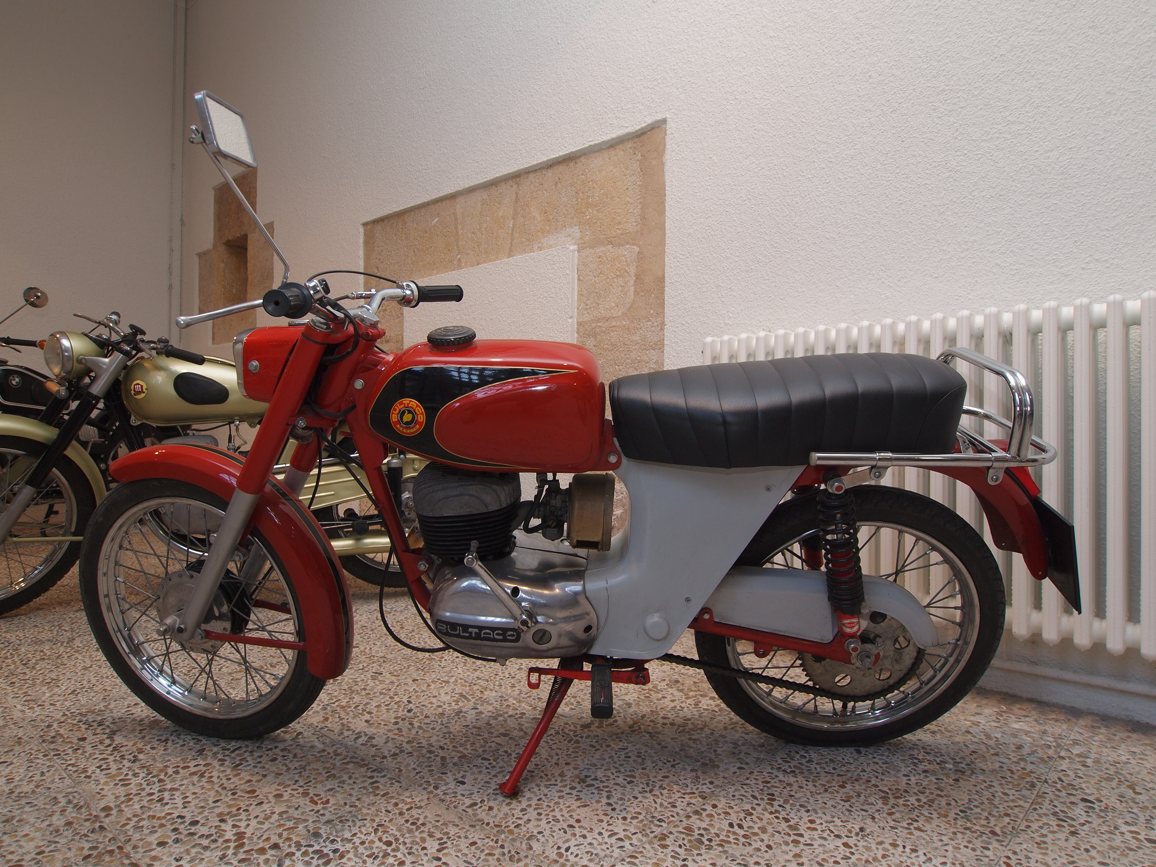 Bultaco Junior 125cc in the II Exhitibion "Toda una Vida en Moto" of the Asociacion Motociclista Zamorana (Zamora, Spain 2012)